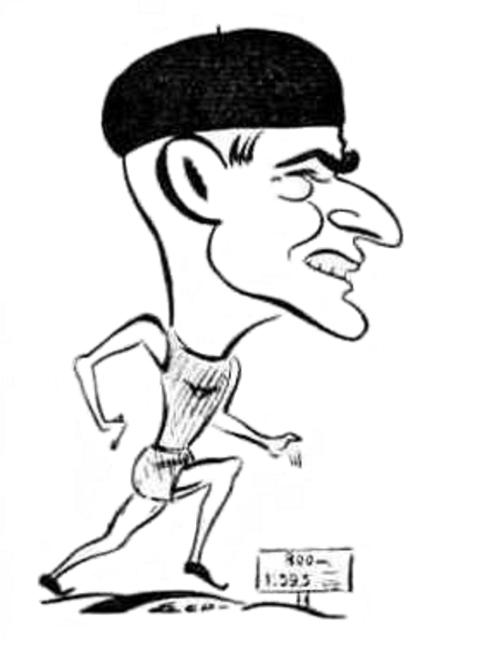 Lithuanian runner Mr. Aleksiejus Šimanas, who just made the new National record (800 meter - 1:59,5). Drawing by Aleksandras Čepas from Lithuanian sports magazine "Kūno kultūra ir sveikata", 1933, No.30.